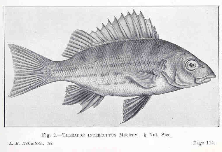 Therapon interruptus Macleay Subject: Teraponidae Tag: Fish